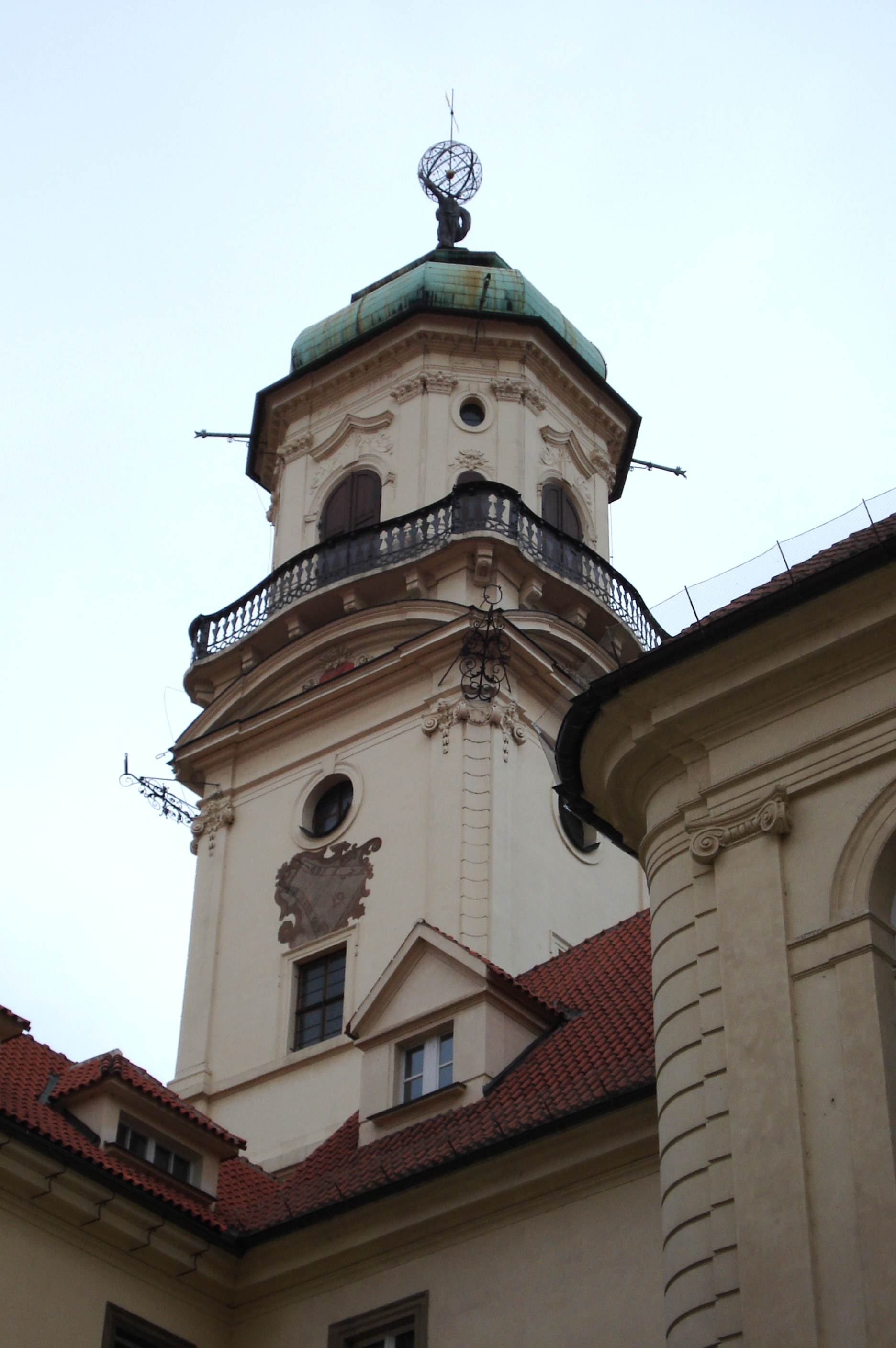 Astronomical tower of the Clementinum, Prague.